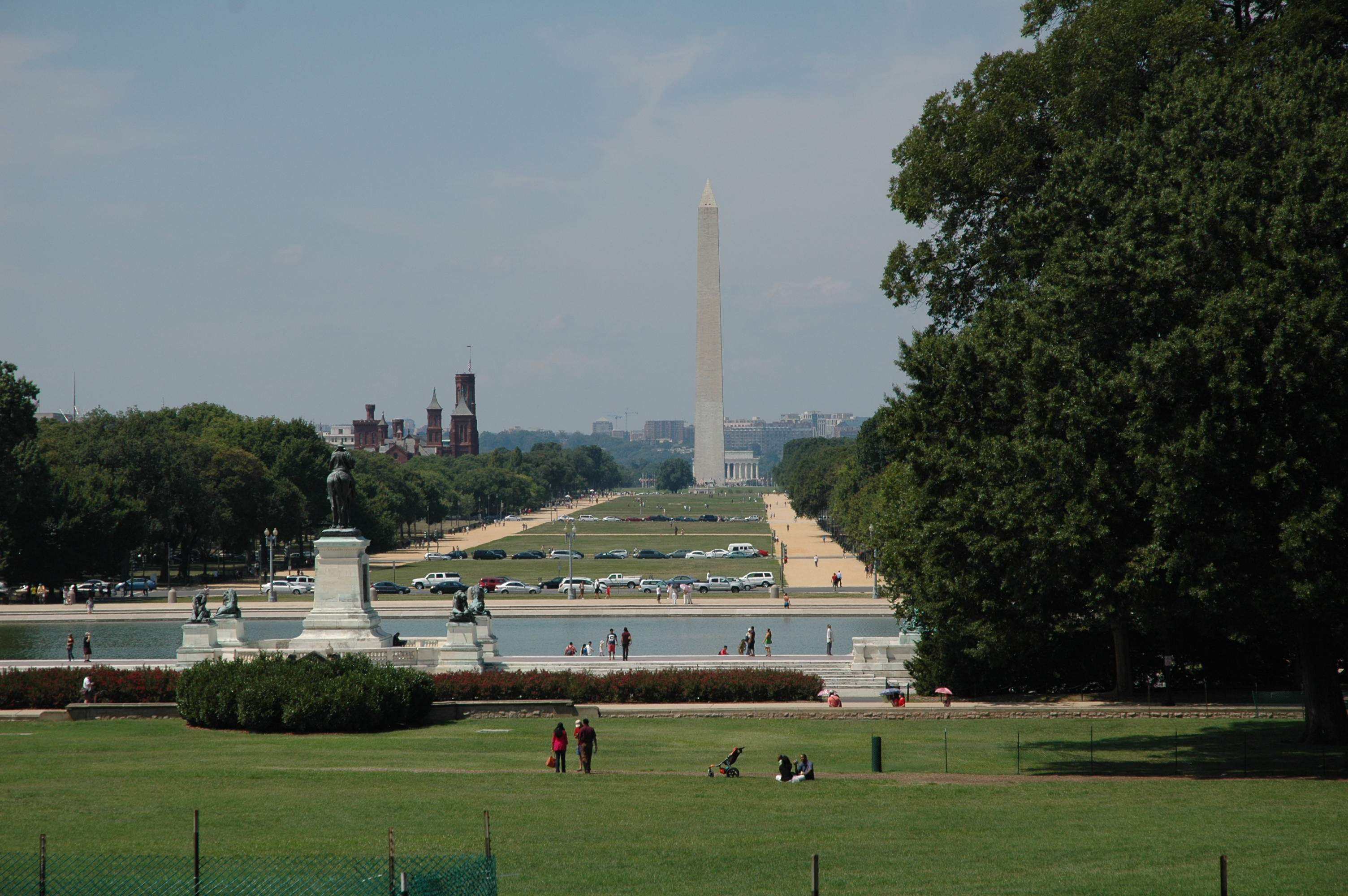 National Mall